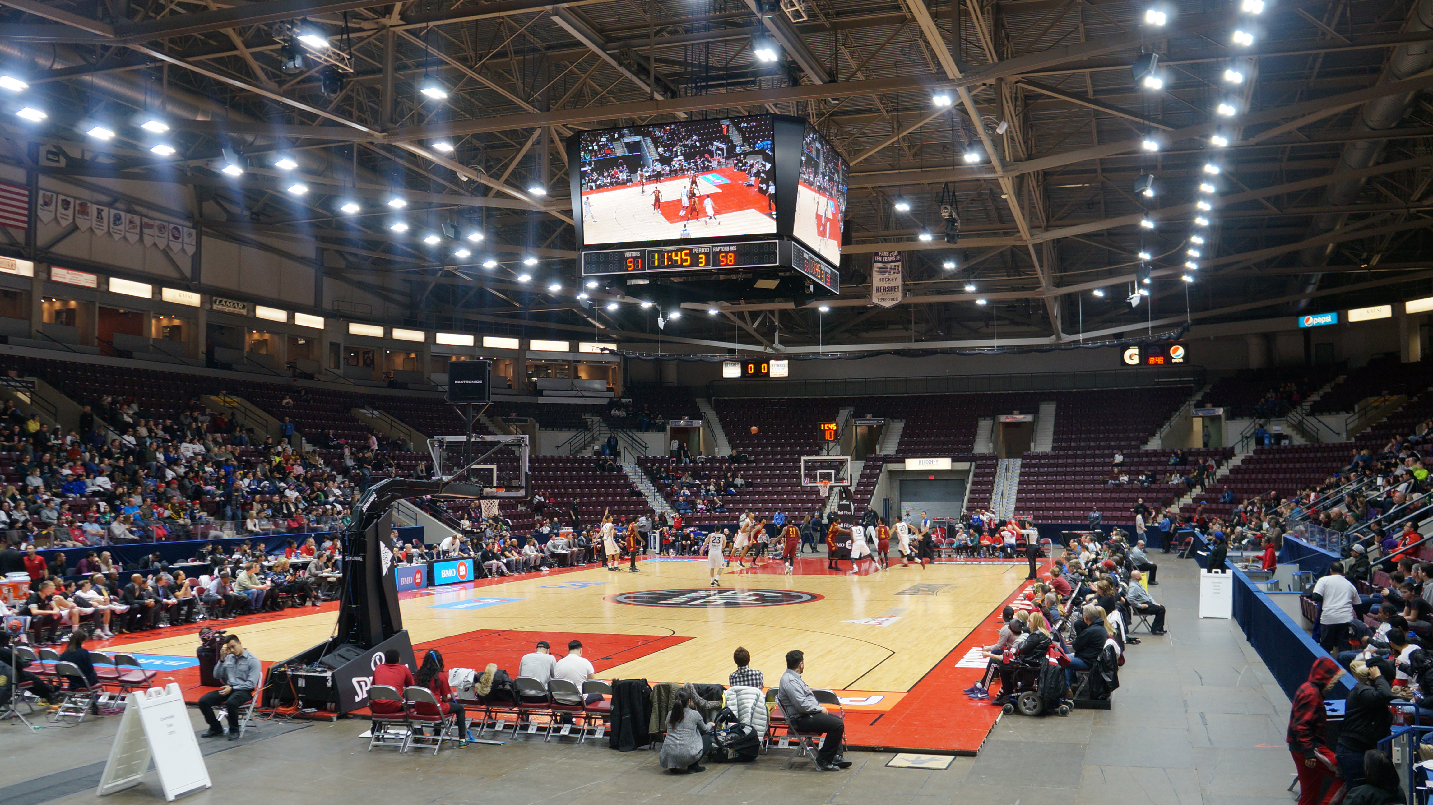 Hershey Centre hosting a NBA Development League between the Charge Canton and Raptors 905